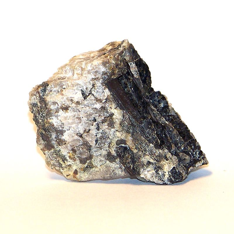 Black tourmalin - schorl from Owl Mountains, Lower Silesia, Poland. 3,5 x 0,7 cm